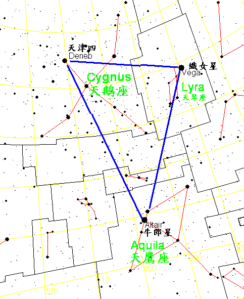 The Summer Triangle